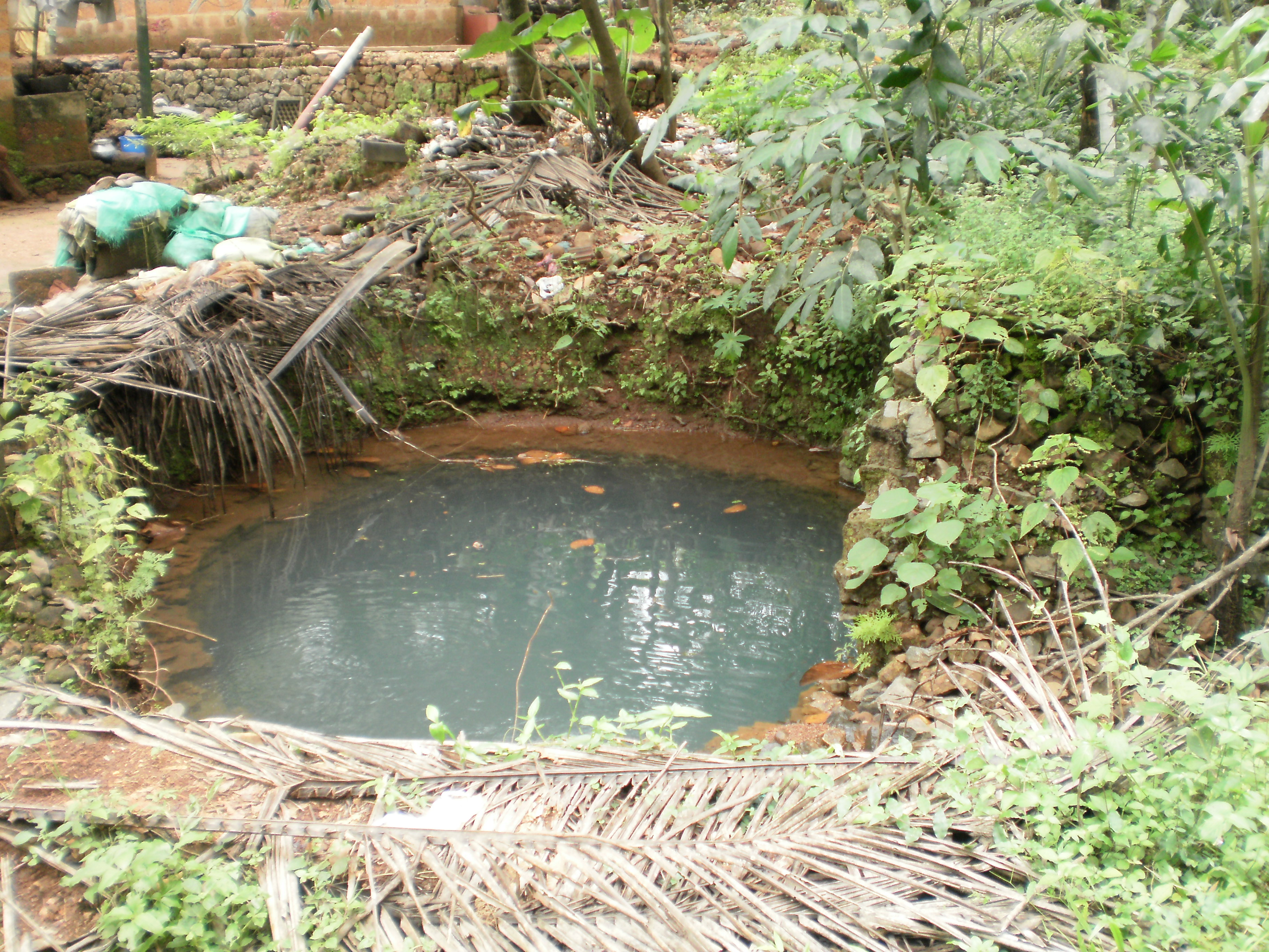 A well from Narakkilakkad in Kerala